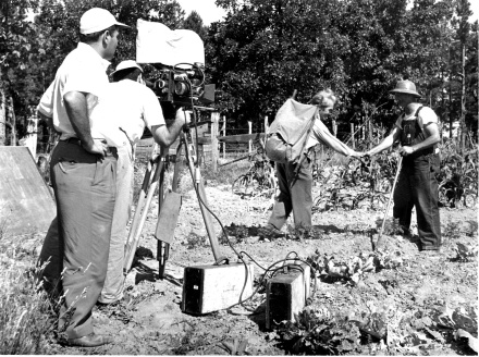 Seymour and Norman Weissman during filming of Ted Richmond and his "Wilderness Library" for the USIA. Location, Mount Sherman, Arkansas.